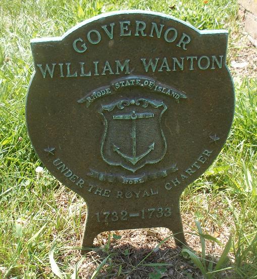 Photograph of William Wanton's grave medalion at Clifton Burying Ground, Newport, Rhode Island, 22 July 2011